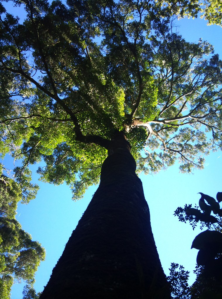 Enormous Stinkwood tree. Olea capensis. Cape Town.